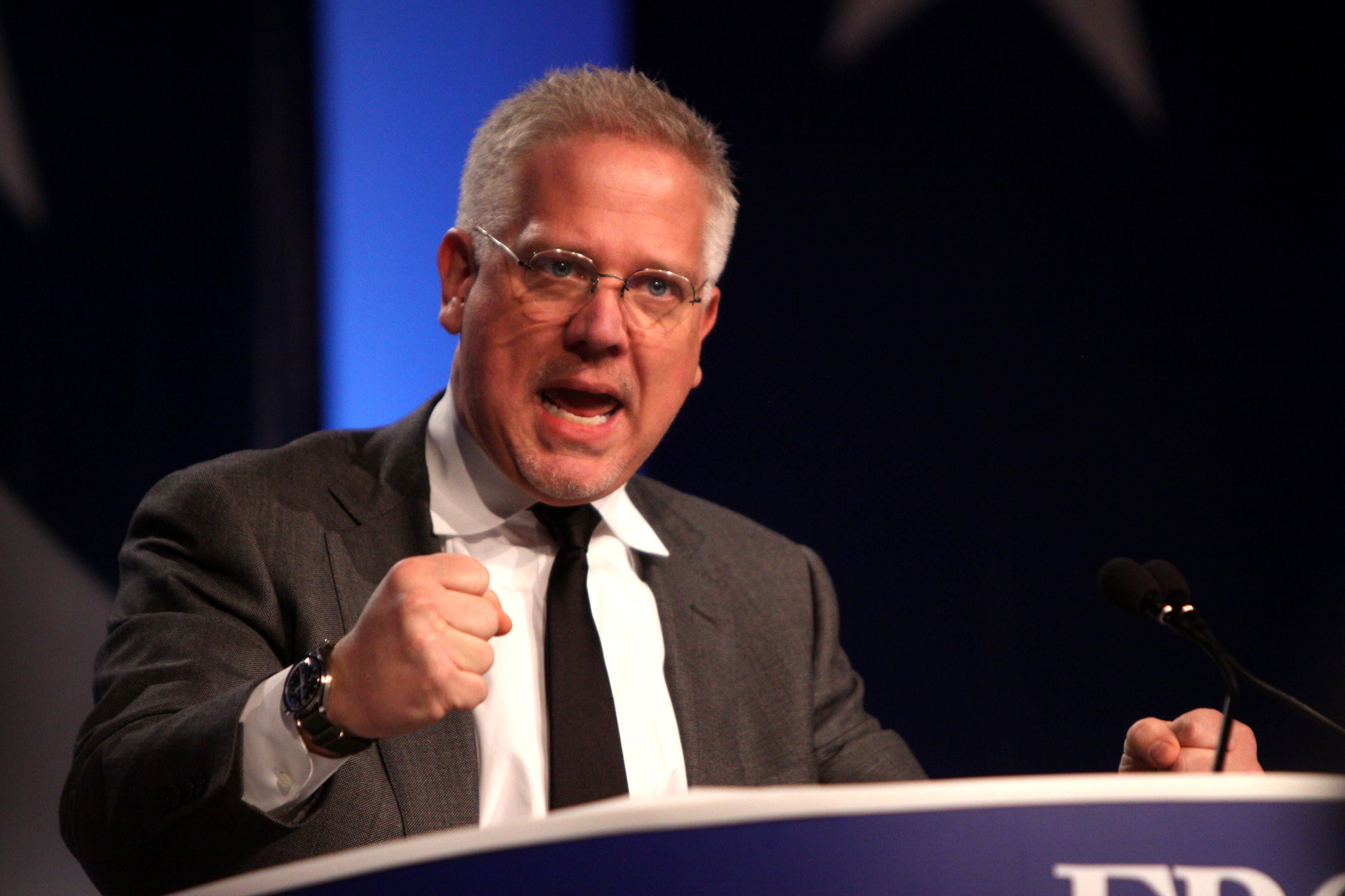 Glenn Beck speaking at the Values Voter Summit in Washington, DC.